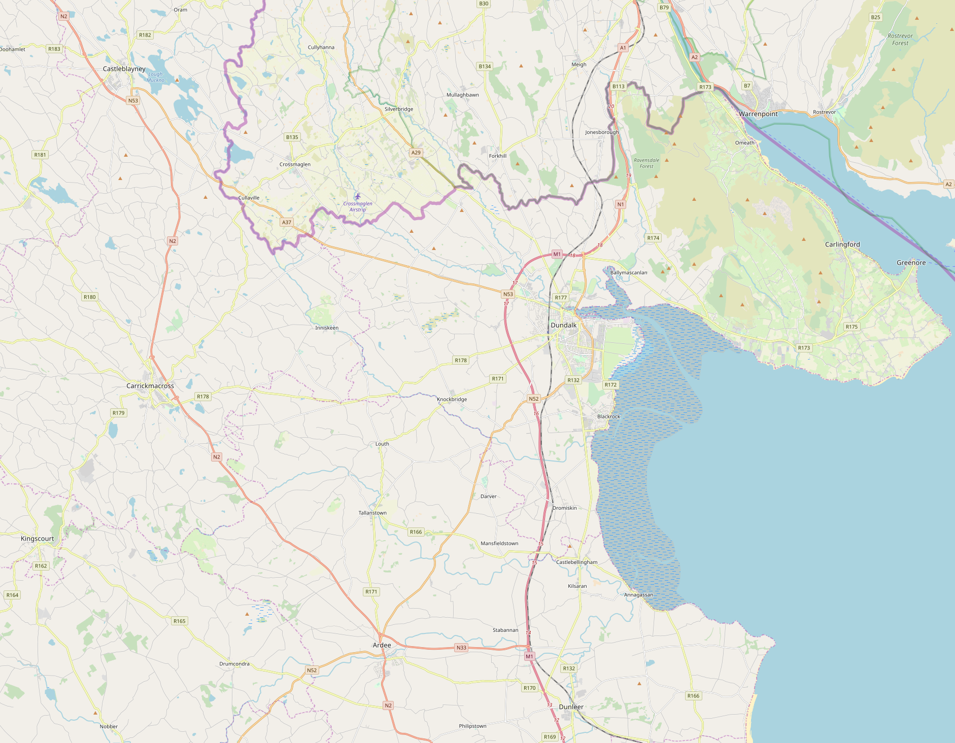 Map of Dundalk F.C. Area of Core Support